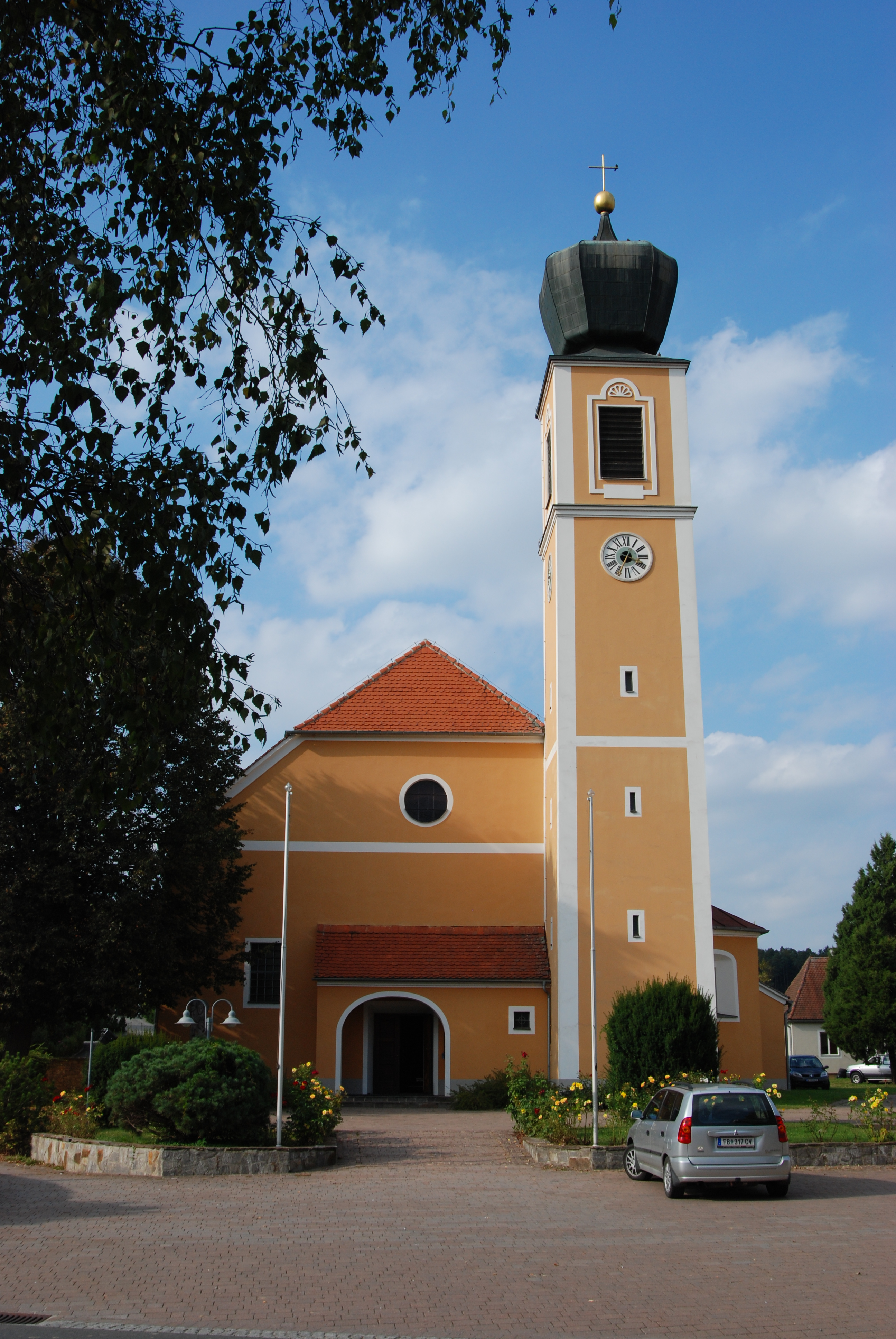 Pfarrkirche Ottendorf an der Rittschein